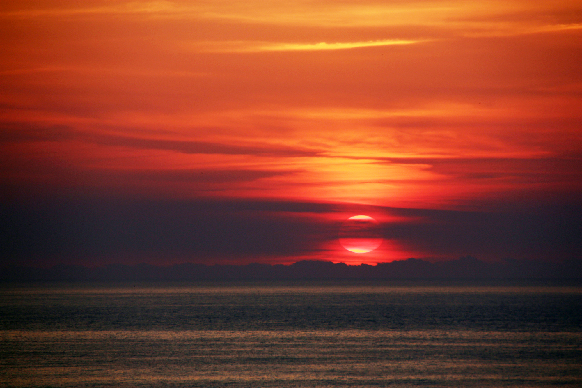 Sunrise over the sea